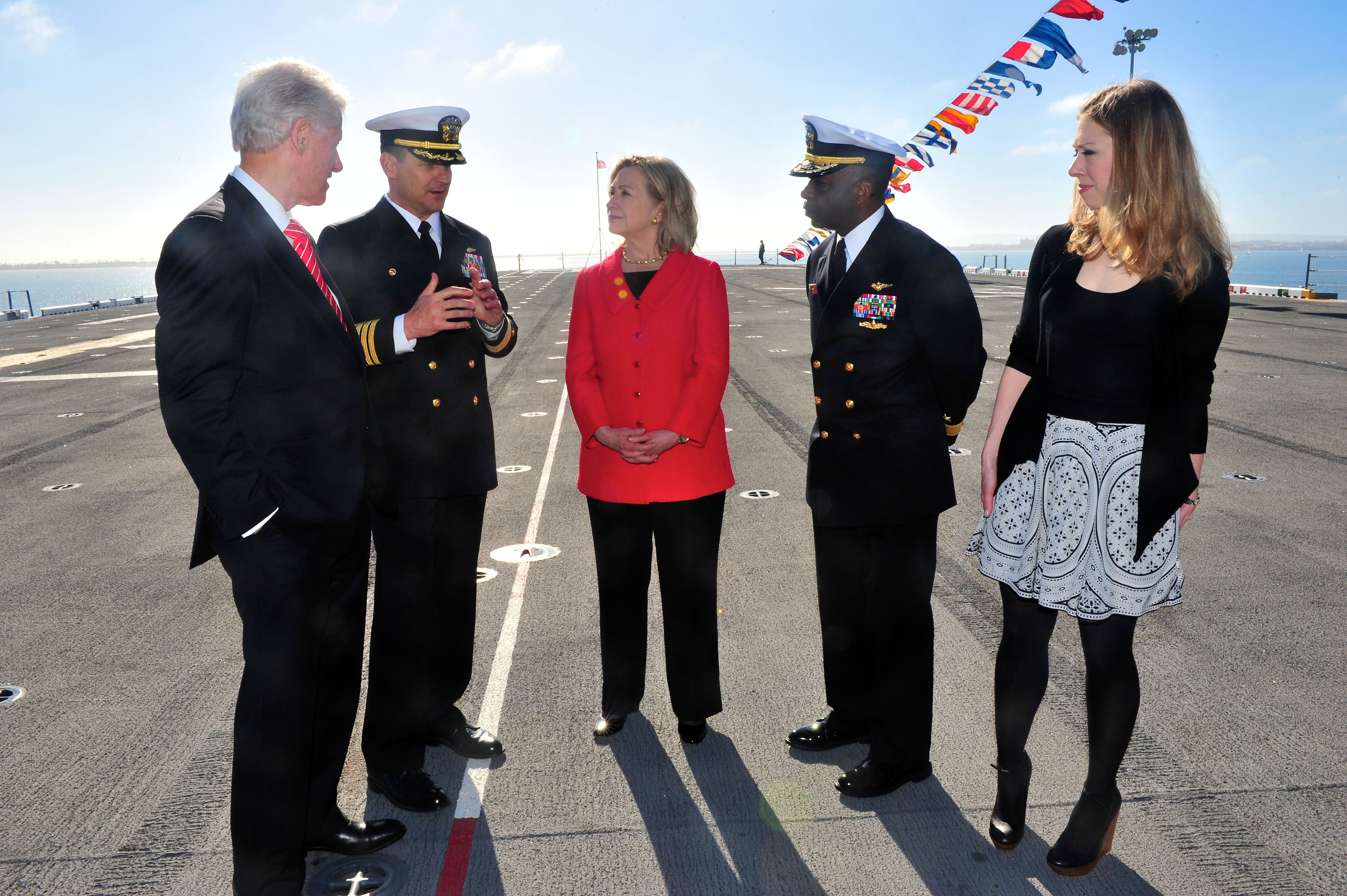 SAN DIEGO (April 1, 2011) Capt. Jim Landers, commanding officer of the multi-purpose amphibious assault ship USS Makin Island (LHD 8), along with Rear Adm. Earl Gay, commander of Expeditionary Strike Group (ESG) 3, explains the ship's propulsion system to former President William Jefferson Clinton and Secretary of State Hillary Rodham Clinton. The Clintons were aboard Makin Island to speak at the retirement ceremony for Chief Culinary Specialist Oscar Flores who currently works for the president. (U.S. Navy photo by Chief Mass Communication Specialist John Lill/Released)